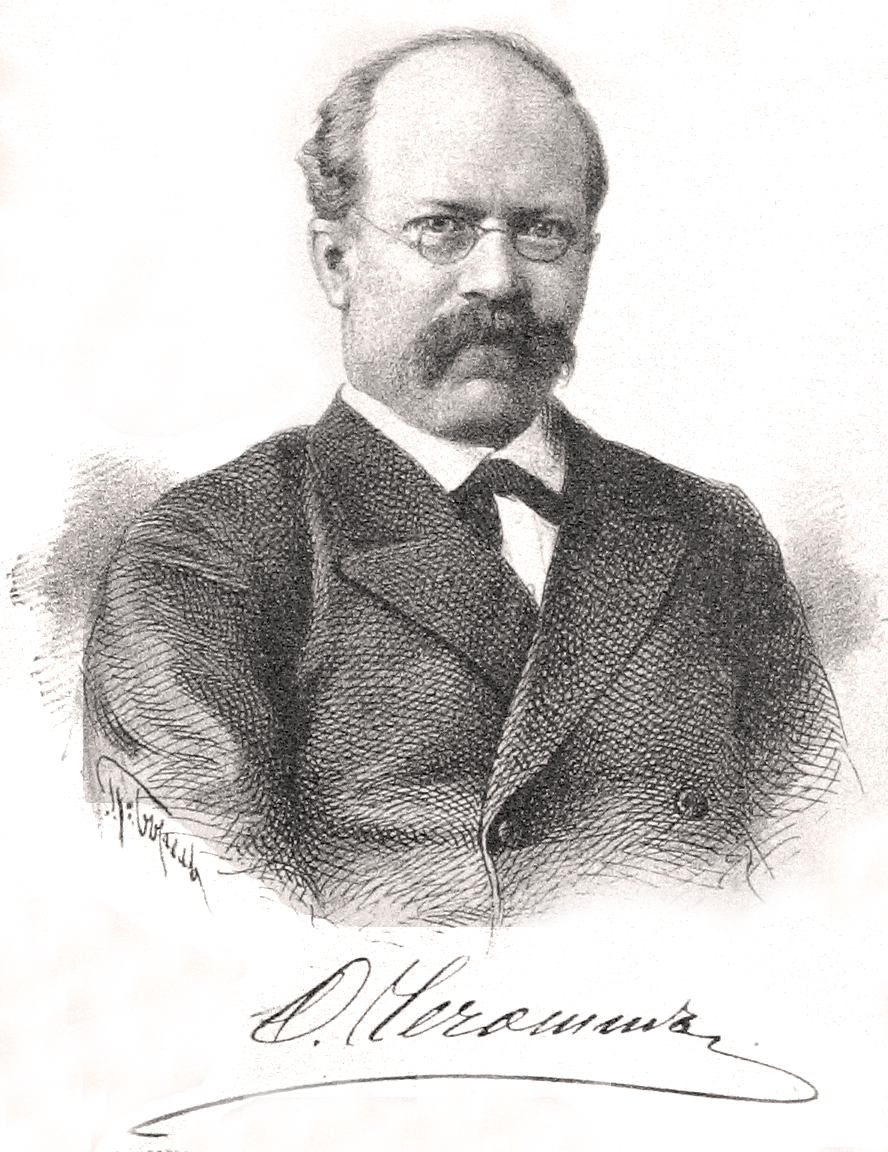 Portrait of Otton Antonovich Czeczott